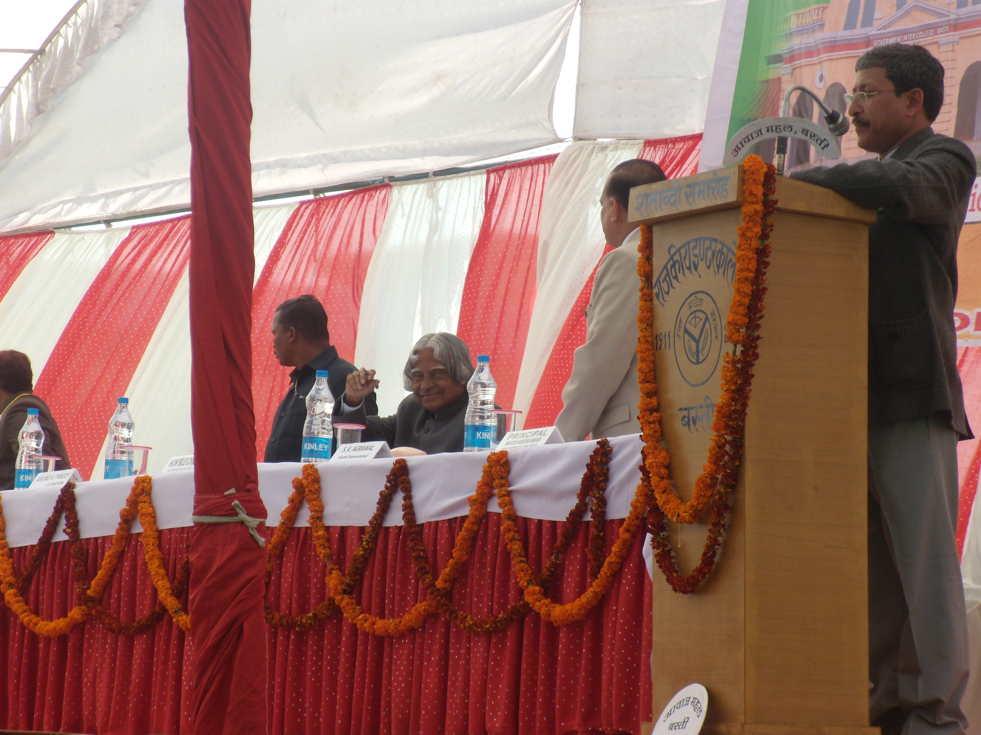 Established in 1911, the GIC, Basti celebrated its centenary year on February 11, 2011. Former President of India Dr A. P. J. Abdul Kalam graced the event as Chief Guest.